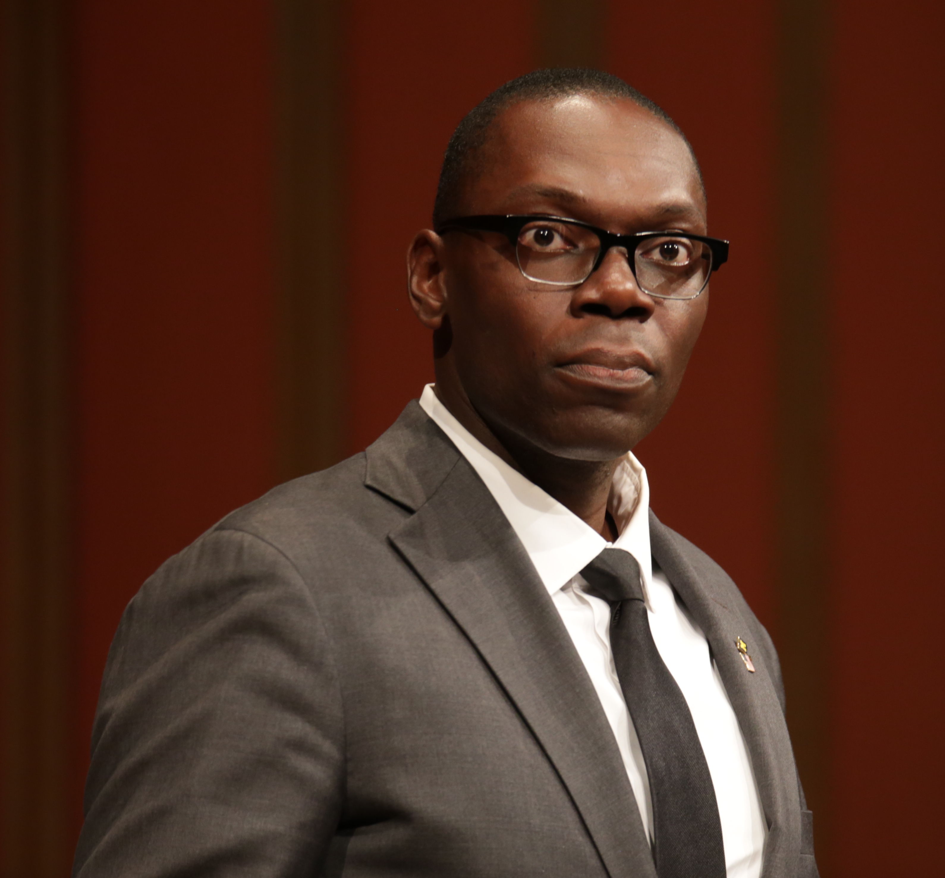 Garlin Gilchrist II speaks at a rally in Ann Arbor on October 19, 2018